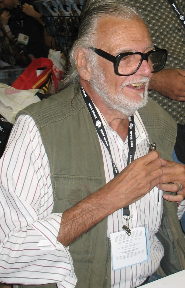 George A. Romero signing at Comic Con, 2007.